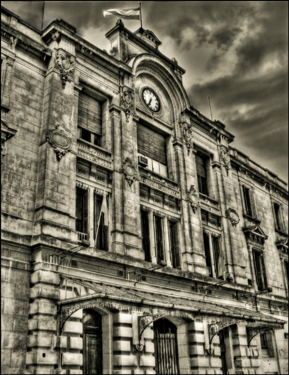 Once de Septiembre railway station, Buenos Aires